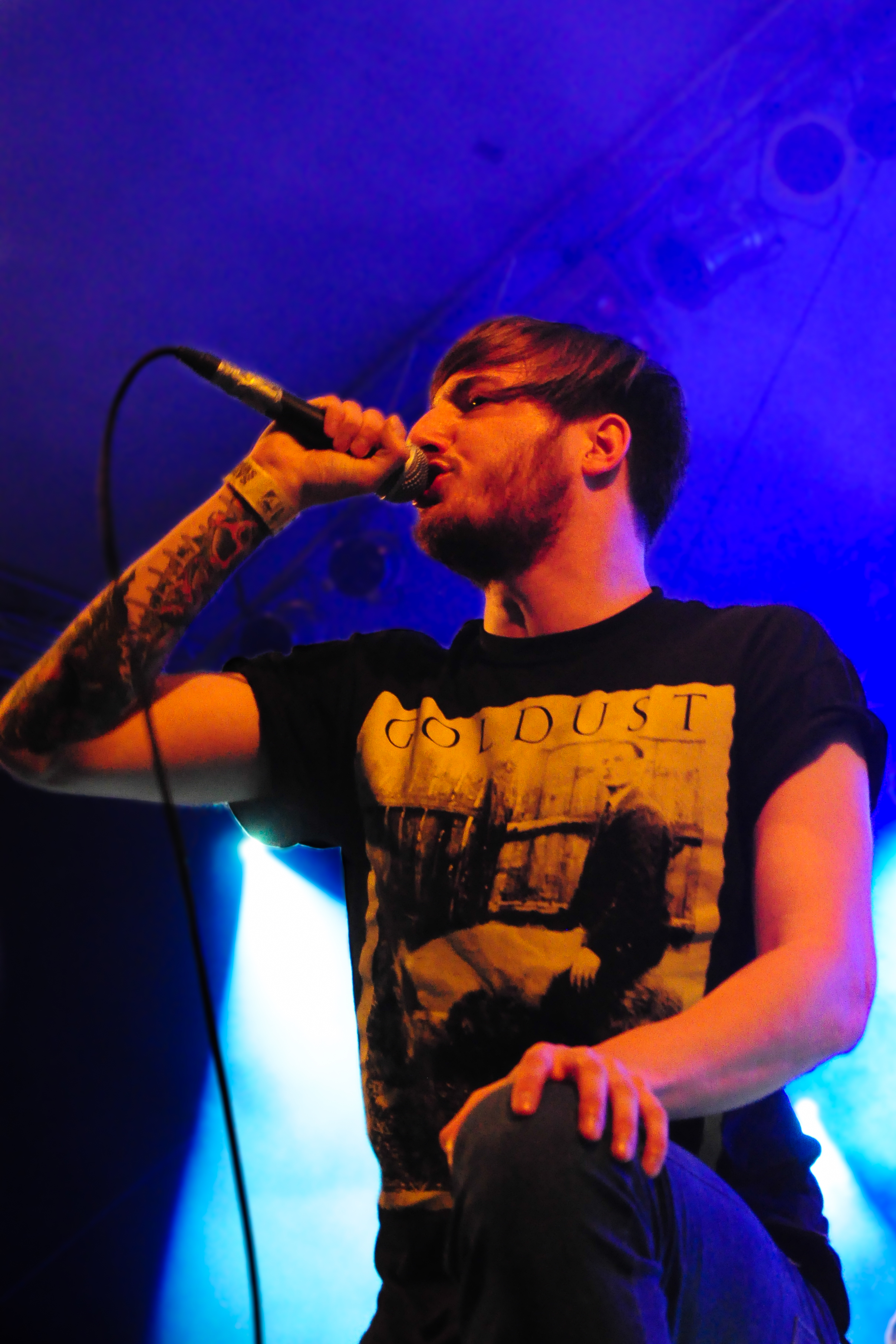 Rapper Casper at the Spack!Festival 2011 in Wirges, Germany.